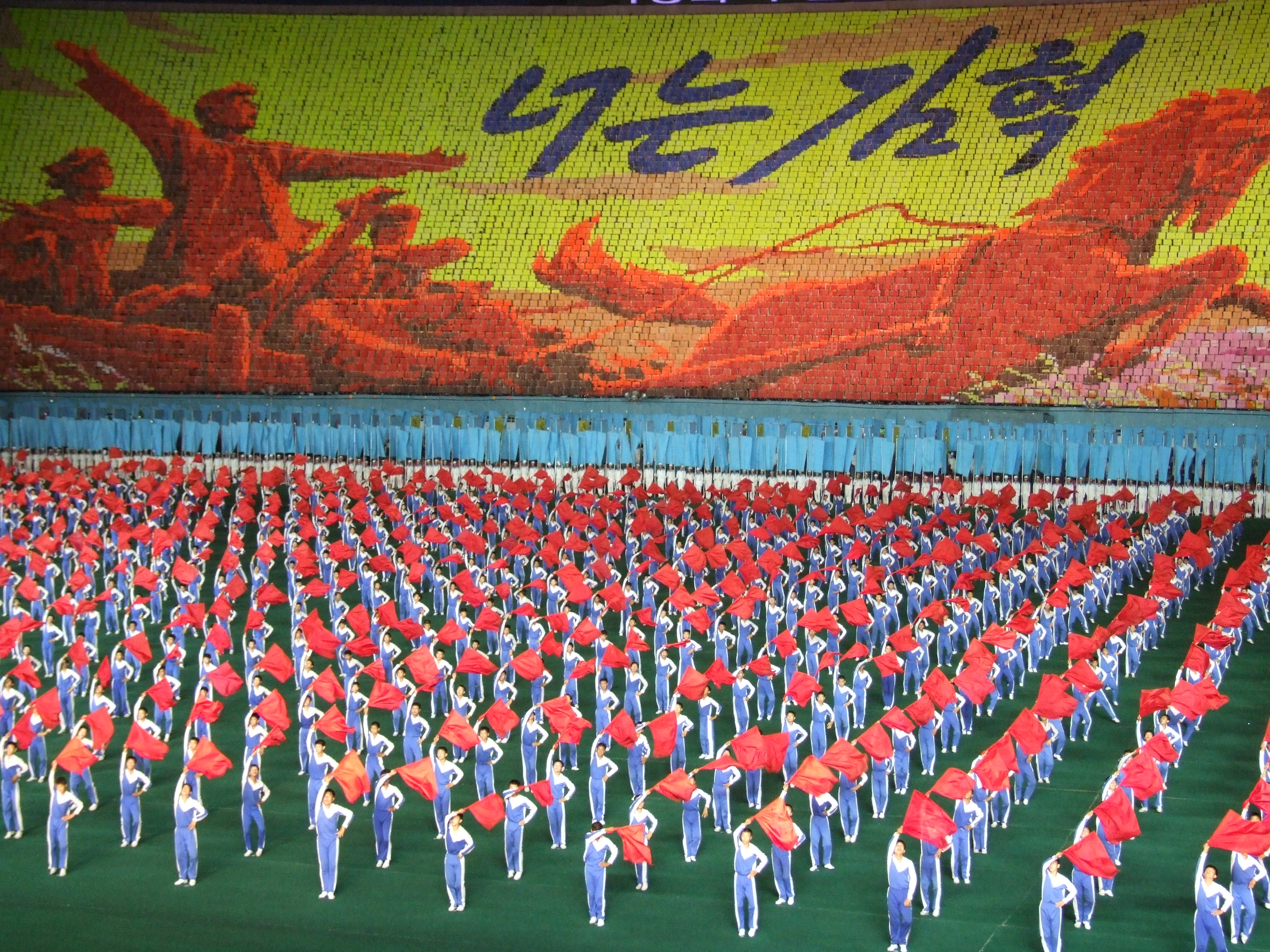 Arirang Mass Games